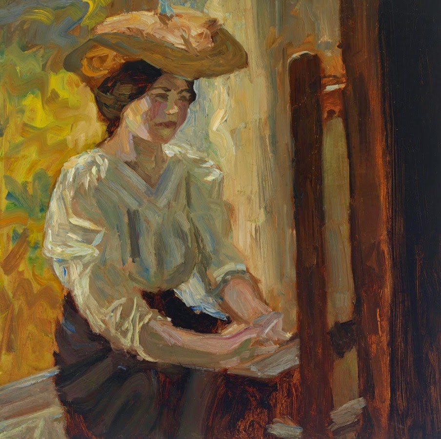 Frieda Kretschmann-Winckelmannː Self at the painting easel